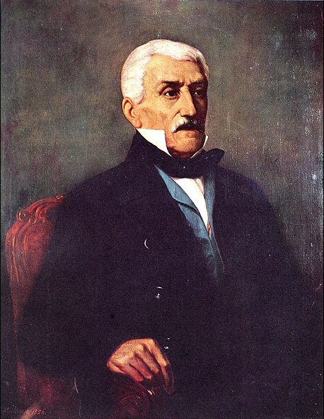 San Martin, by his daughter Mercedes San Martin (1856), from the XIX century